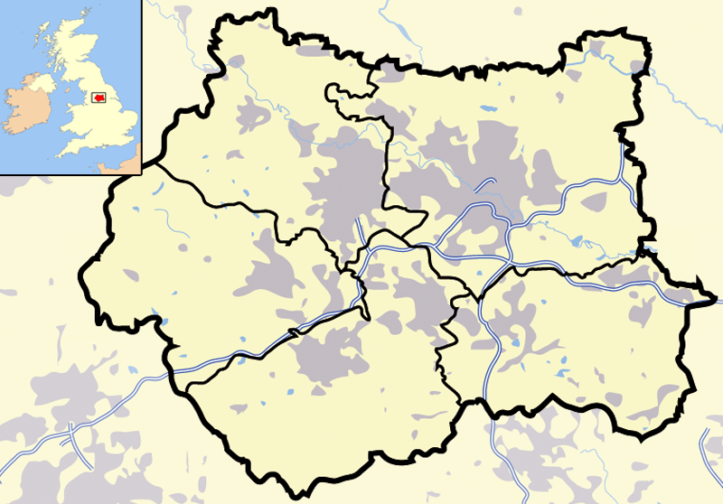 Map of West Yorkshire and surrounding area, with indented map of the British Isles for national context. County and borough boundaries in black, urban areas in grey, motorways in blue with white stripe, water bodies in light blue.